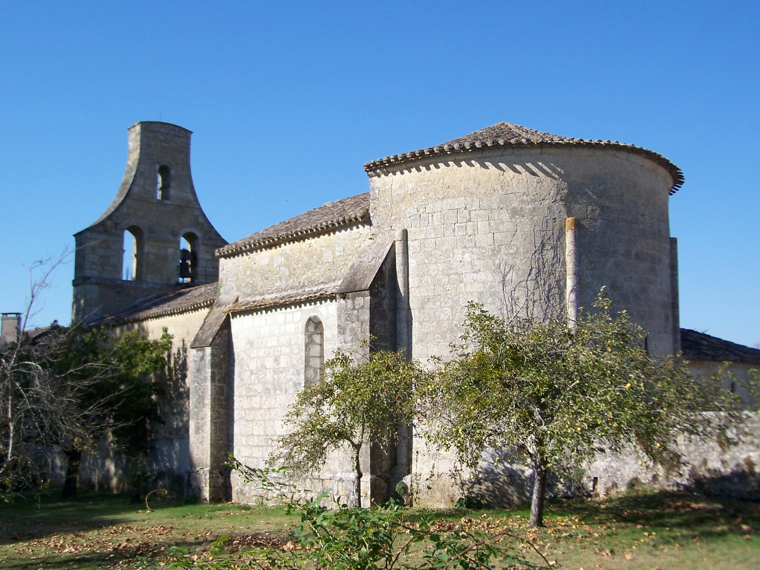 Saint Sulpitius church of Daubèze (Gironde, France)